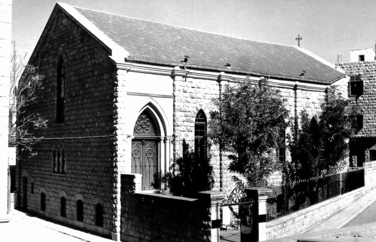 Emmanuel Armenian Evangelical Cathedral, Aleppo, Syria.